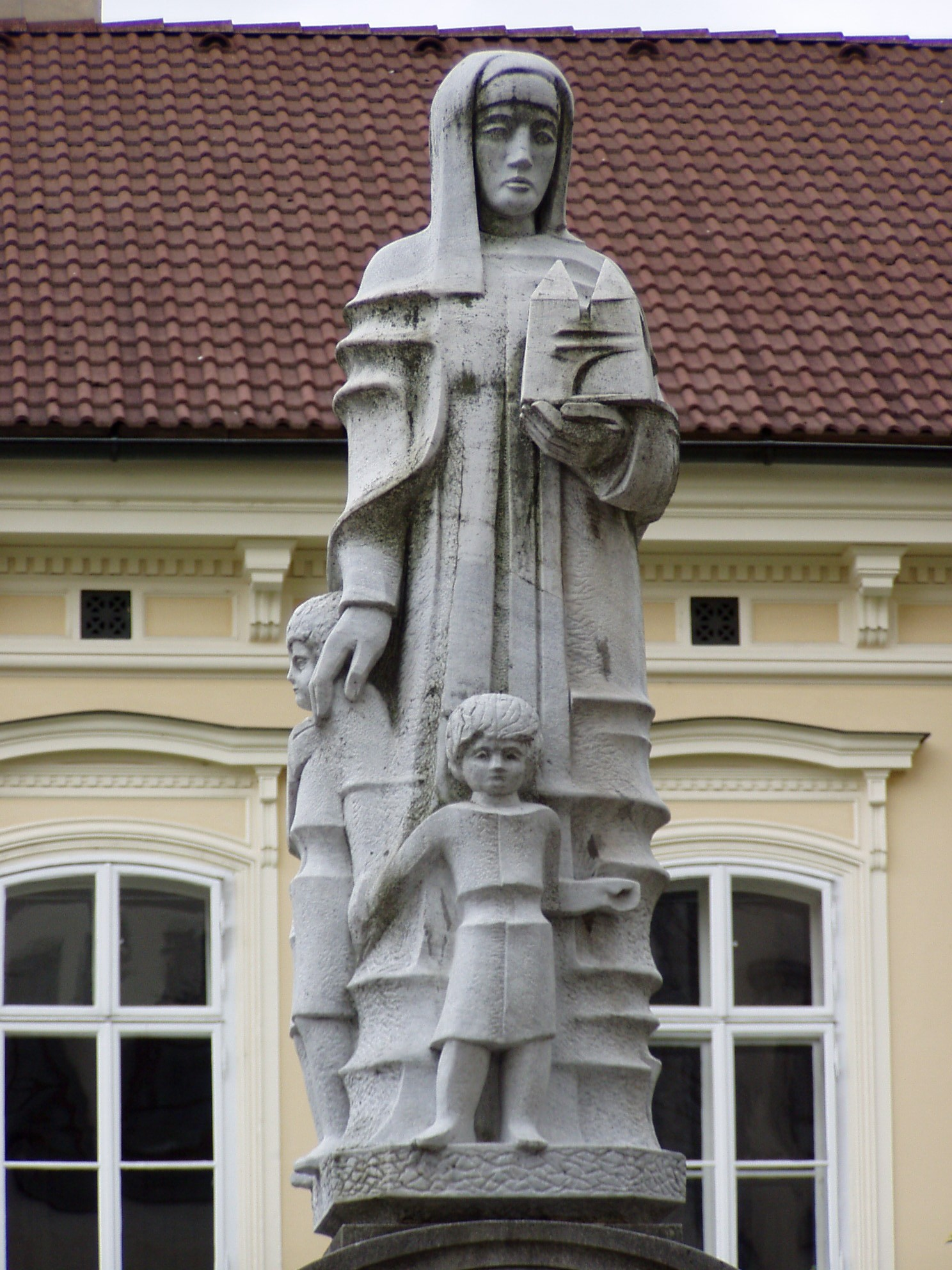 Monument of St. Hemma of Gurk in the Court of Dome in Klagenfurt, Carinthia, built in 1988